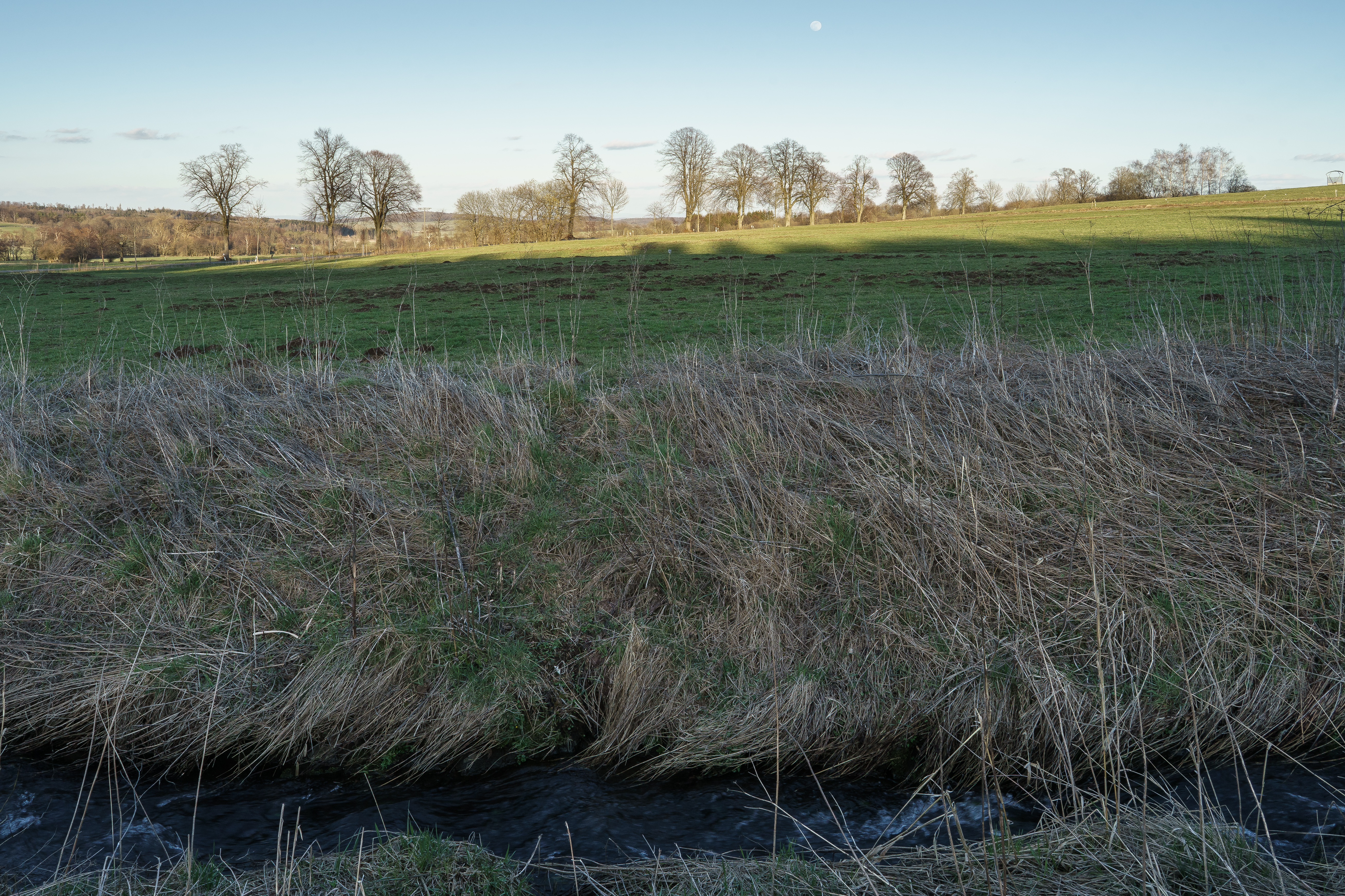 Stream Brenderwasser at the land parcel Auf der Fell - Engelrod / Lautertal